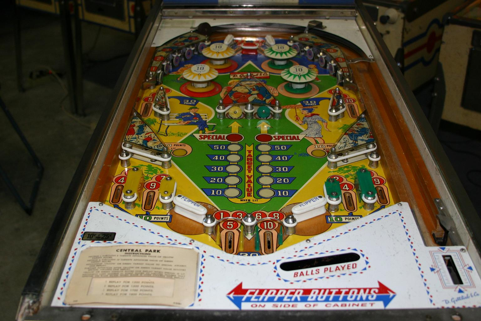 Picture of the 1966 Gottlieb's Central Park pinball table.